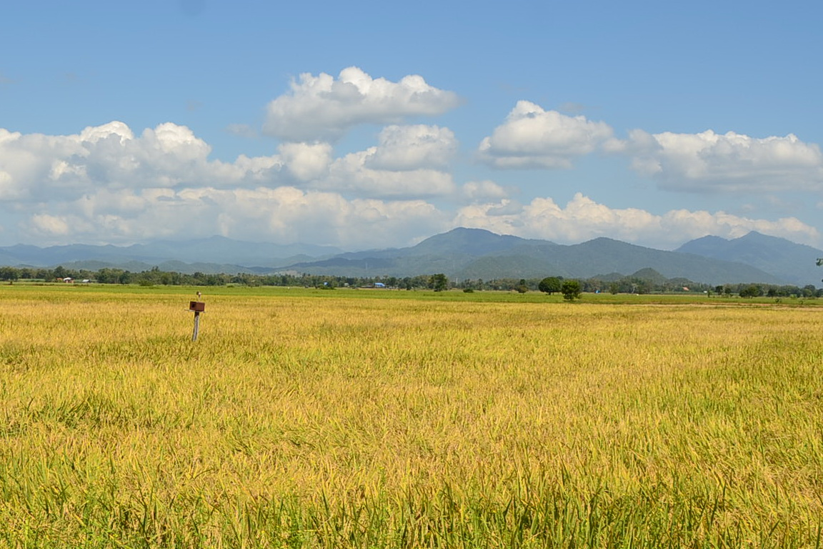 Ban Khung Taphao เขาขุนฝาง